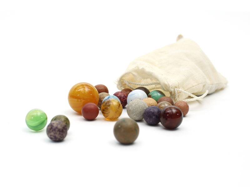 A collection of marbles within the permanent collection of The Children's Museum of Indianapolis.